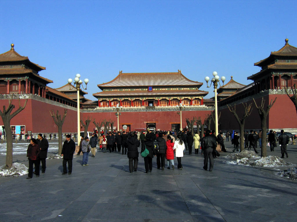 "Wu men" The Forbidden City or Forbidden Palace (Chinese: 紫禁城; pinyin: zǐ jìn chéng; literally "Purple Forbidden City"), located at the exact center of the ancient City of Beijing, was the imperial palace during the mid-Ming and the Qing dynasties.